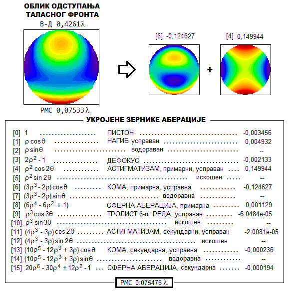 УКРАЈАЊЕ ЗЕРНИКЕ ИЗРАЗА У ОДСТУПАЊЕ ТАЛАСНОГ ФРОНТА